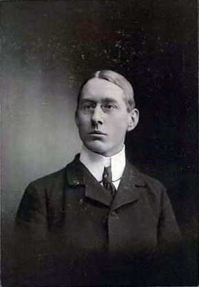 Johannes Vilhelm Jensen in 1902.